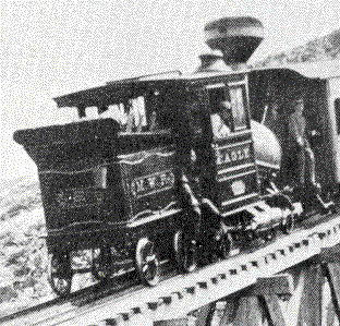 Mount Washington Cog Railway locomotive No. 2 Eagle.